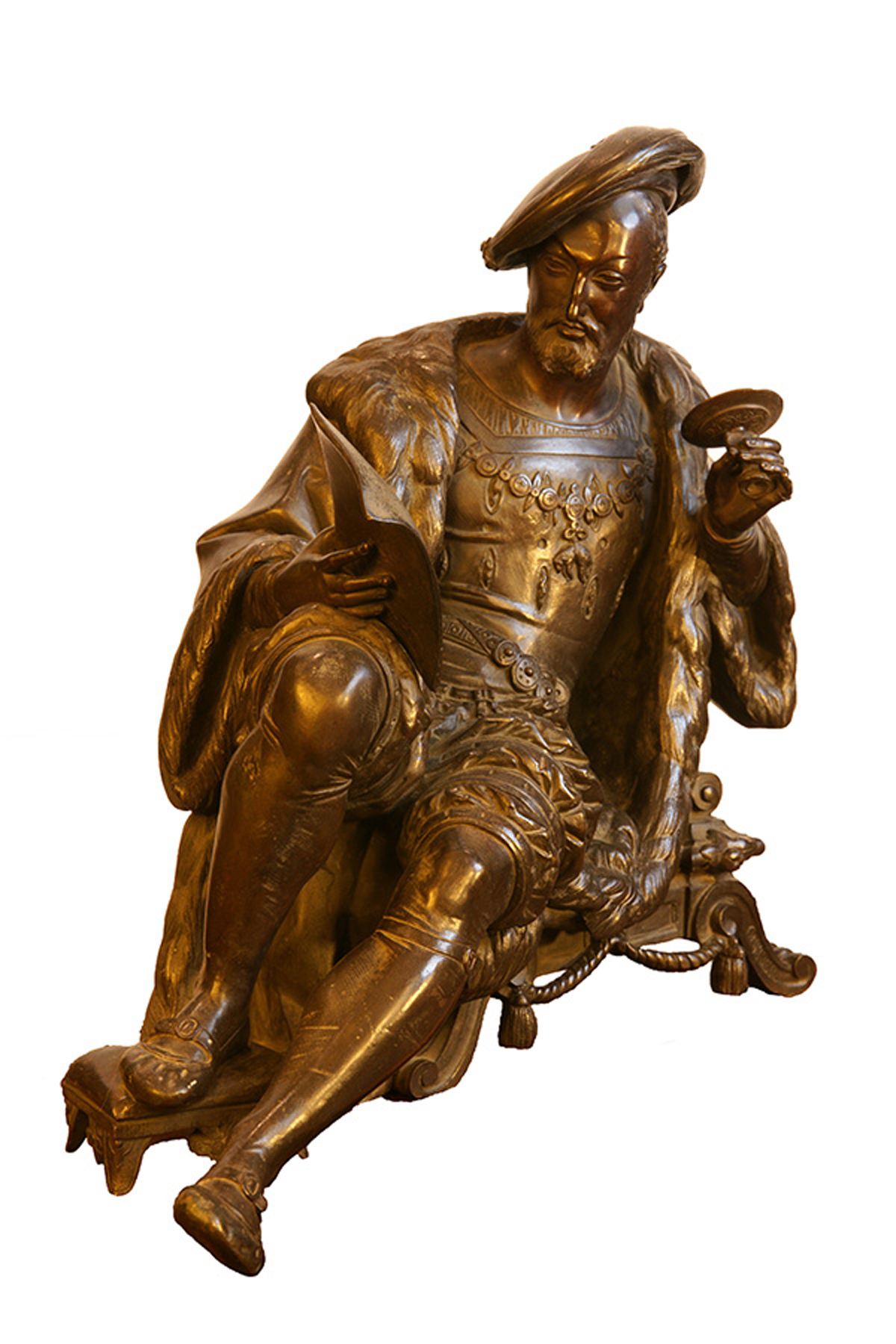 Leonardo da vinci Sculptor Albert-Ernest Carrier-Belleuse (1824-1887)